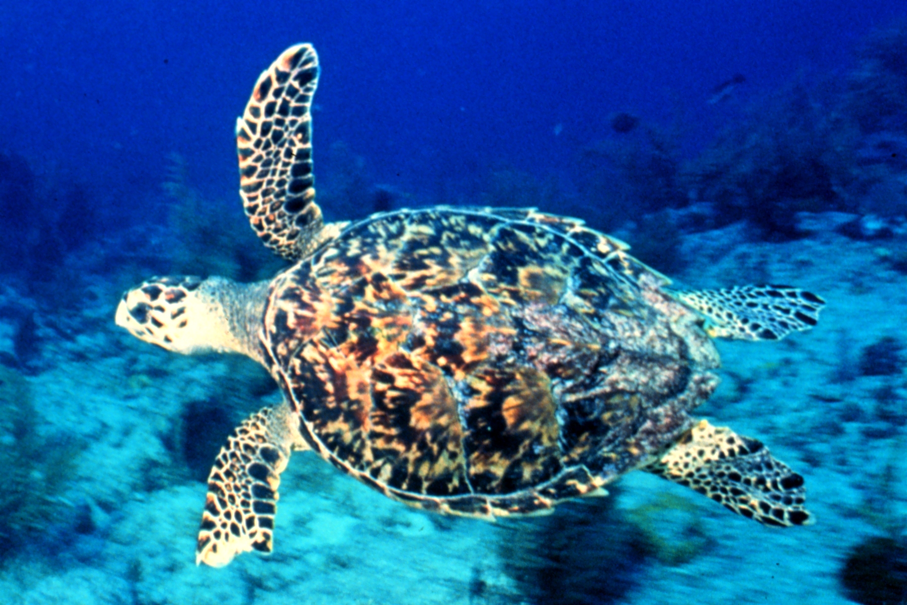 A hawksbill turtle swimming.